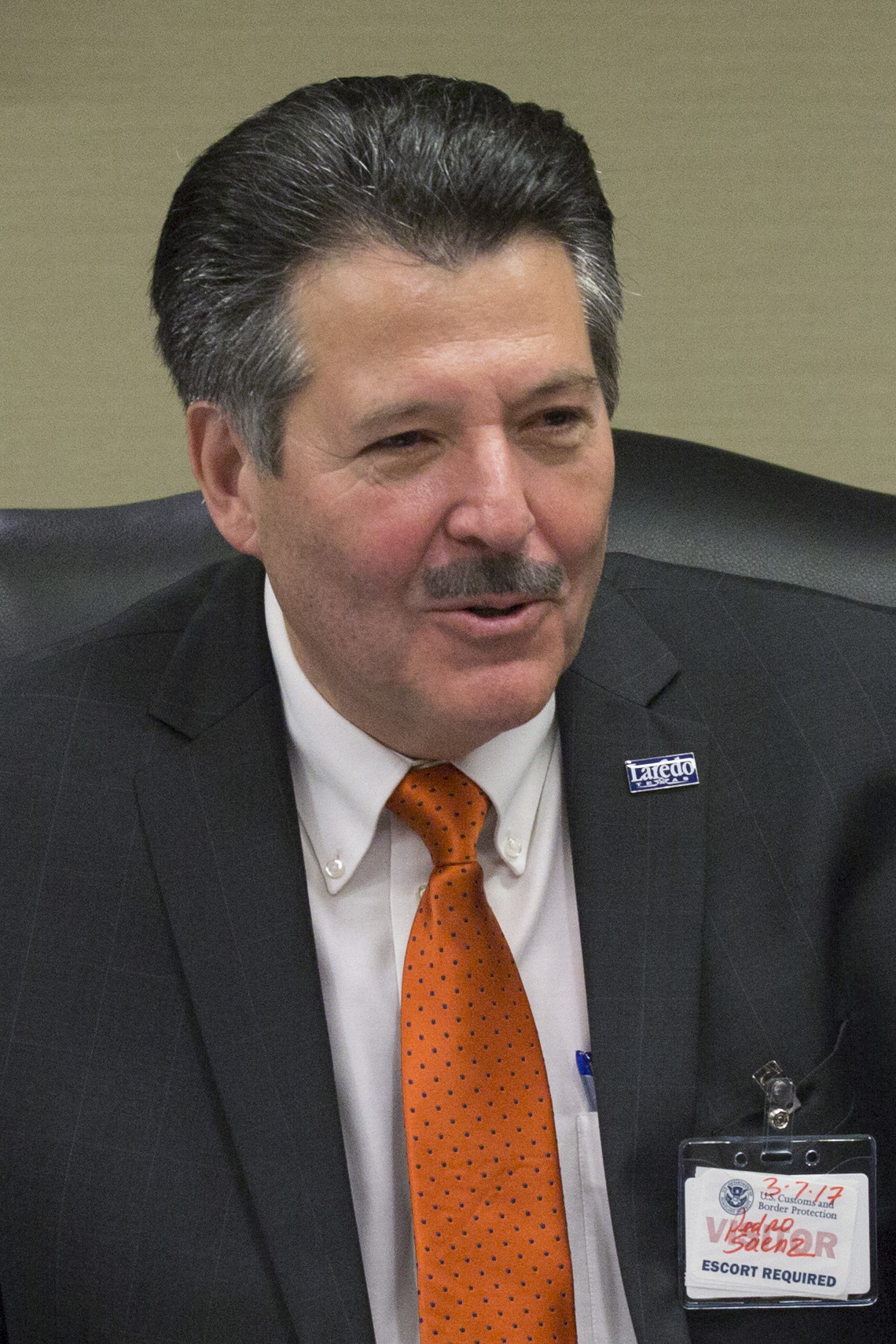 The Mayor of Laredo, Texas, Pete Saenz, makes opening remarks as he meets with U.S. Customs and Border Protection Acting Commissioner Kevin K. McAleenan in Washington, D.C., March 7, 2017. U.S. Customs and Border Protection Photo by Glenn Fawcett